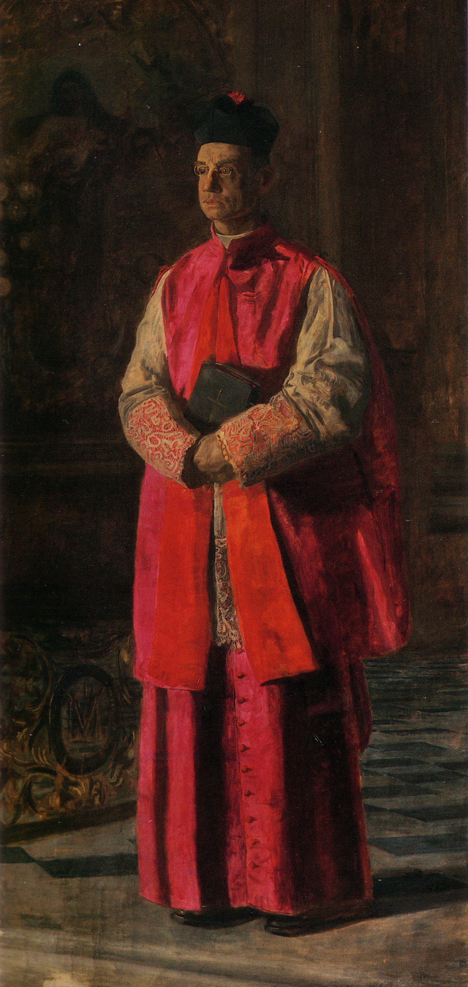 Portrait of Monsignor James P. Turner (G-438), Nelson-Atkins Museum of Art, Kansas City, Missouri.